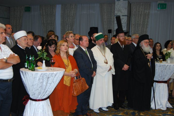 Celebration of 63 years of Israeli Indipendence with leaders of five religions attending